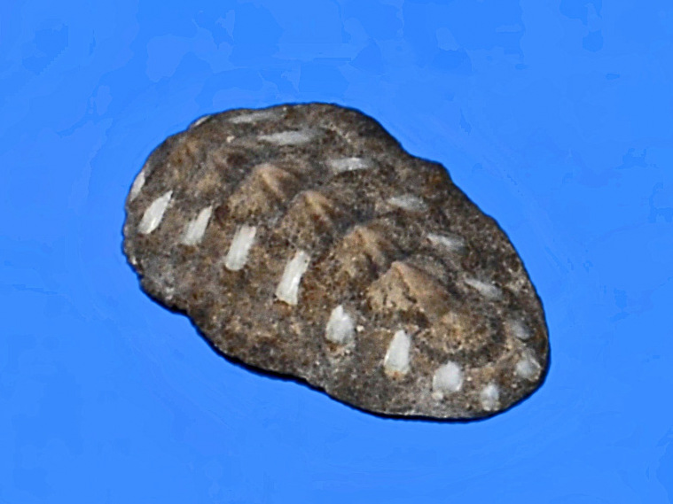 Dorsal view of Acanthochitona bednalli from Tasmania. Museum specimen